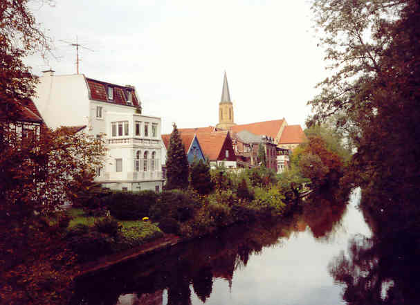 Historic town centre of Telgte situated on the Ems river.